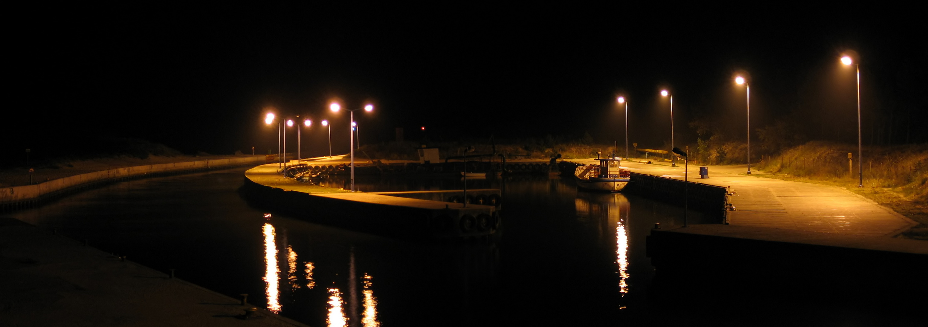 Harbour in Dźwirzyno seaport, Poland